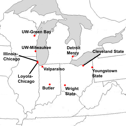 Locations of Horizon League Conference full member institutions. Personal creation in Photoshop; All rights released to the public to do whatever they want with it.